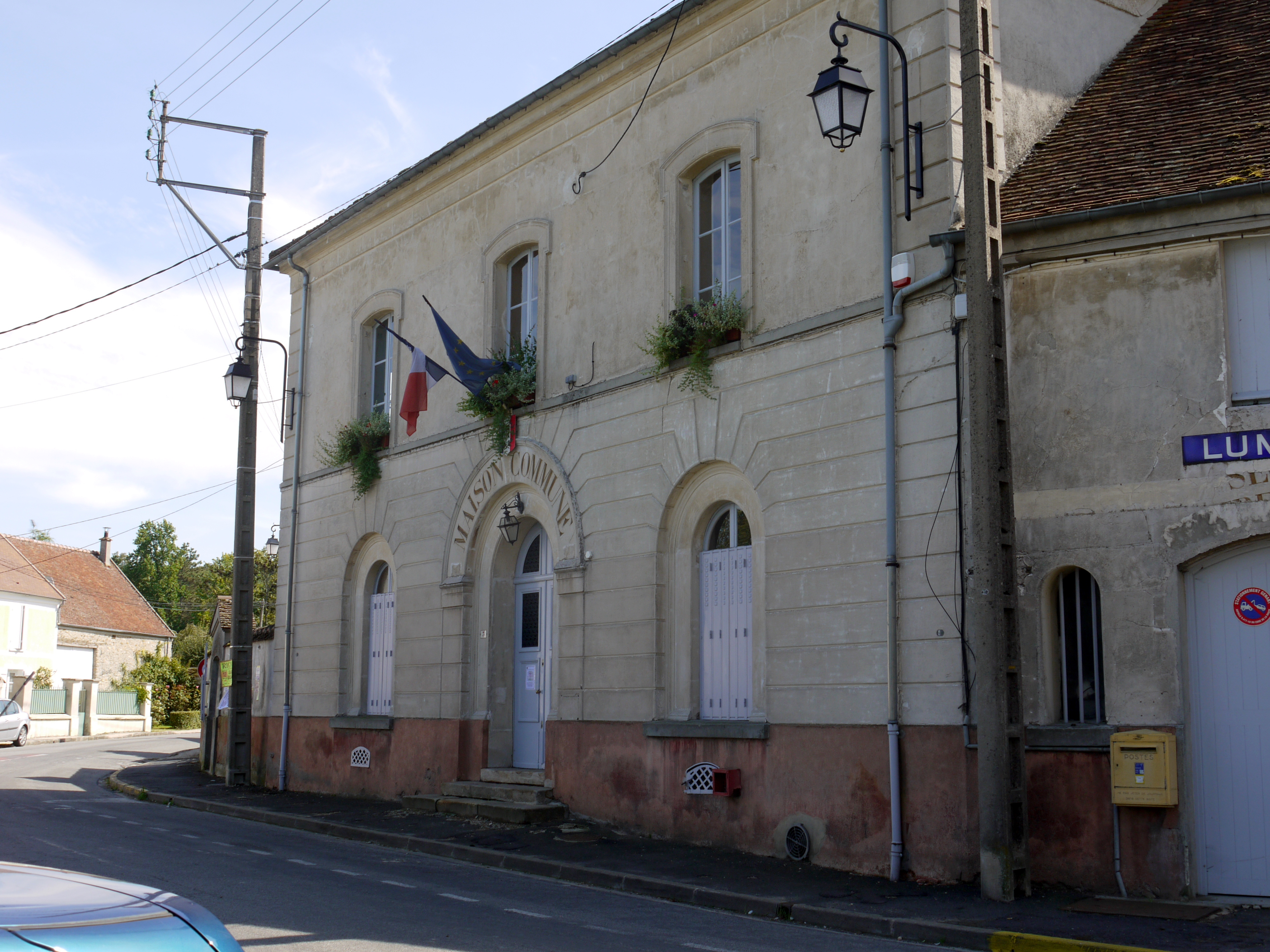 Maison commune of Lumigny, Seine et Marne Ile de France